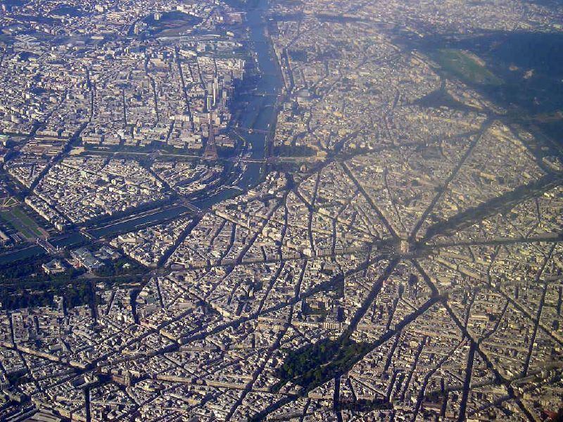 Aerial photographs of Paris